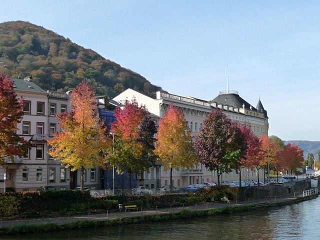 Bad Ems , Mainzerstraße